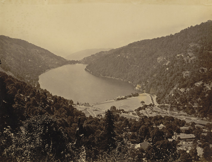 A complete view of the Nainital town, 1885.Details